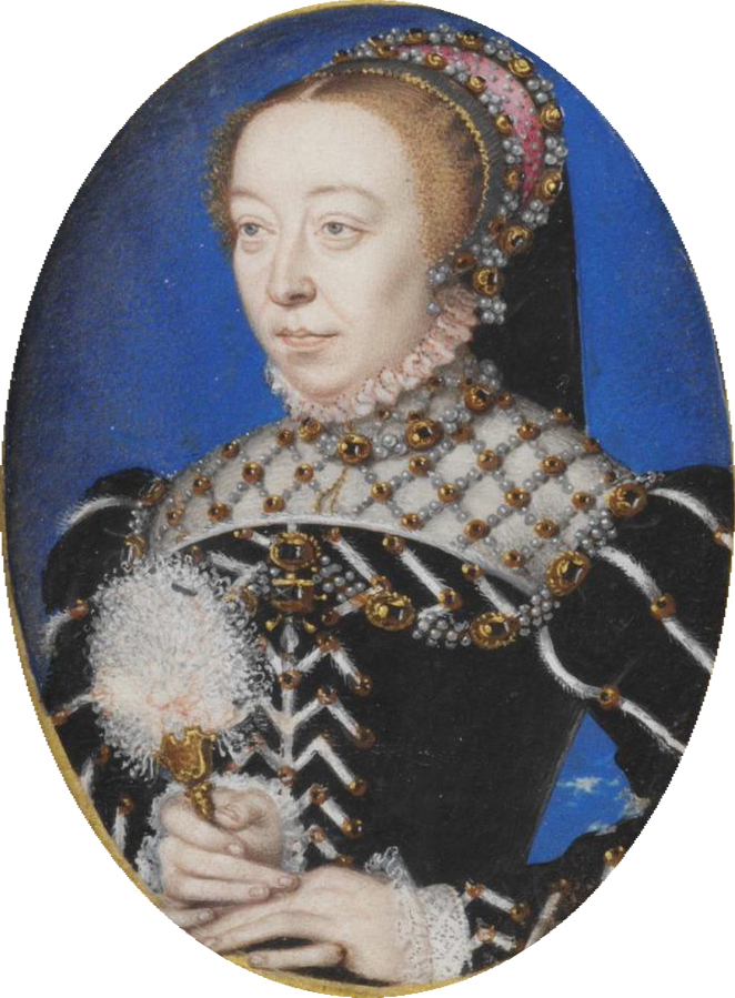 Miniature of Catherine de' Medici, "a rare portrait of Catherine before she was widowed in 1559, when she adopted the veil and severely plain dress of a widow."